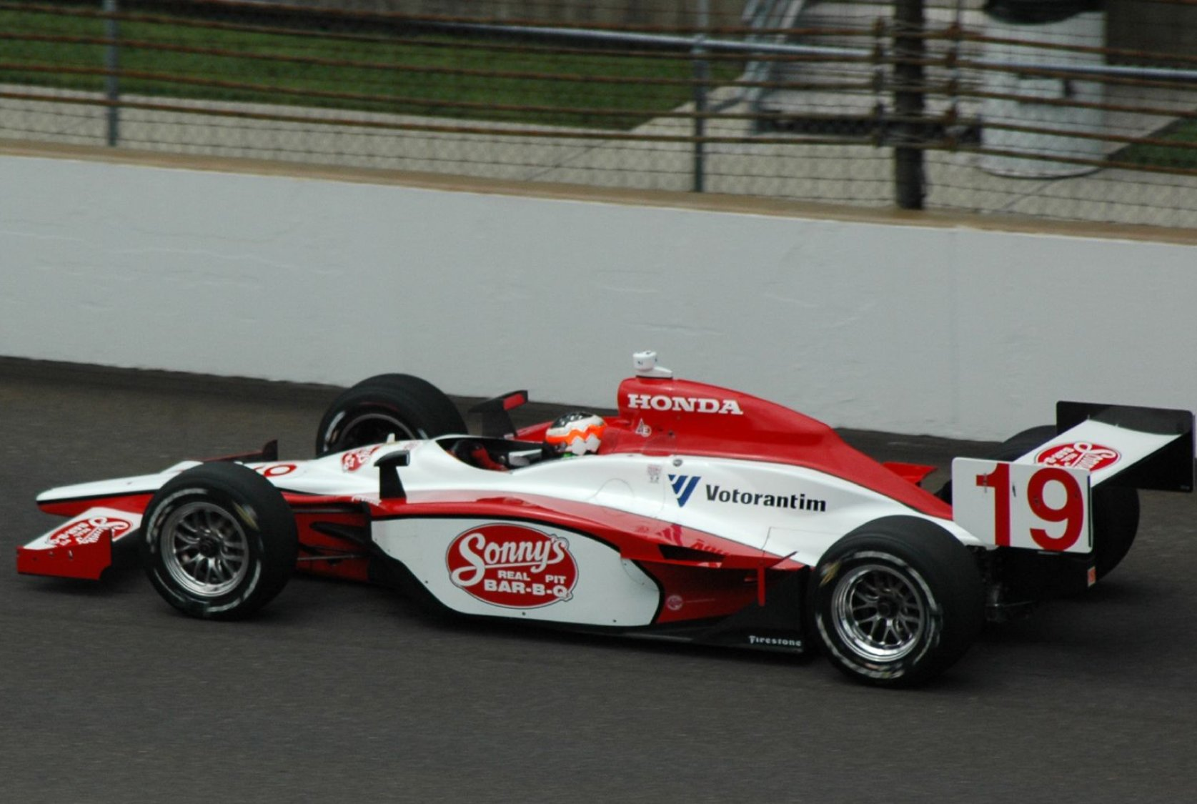 Mario Moraes at Indianapolis 500 practice.